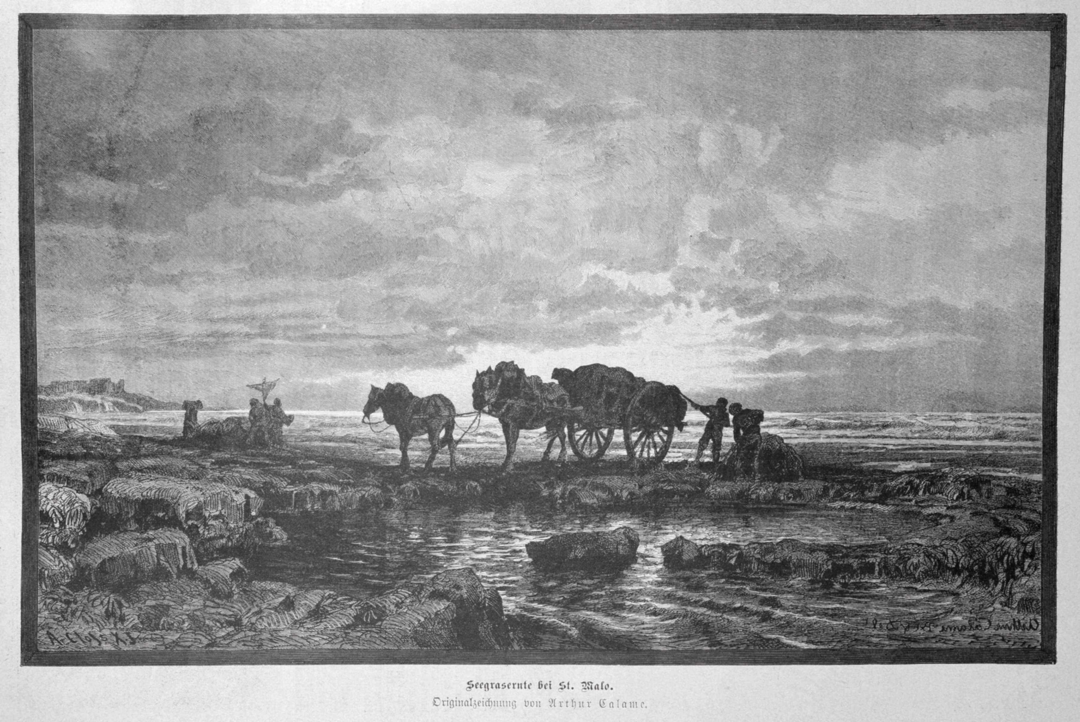 caption: "Seegrasernte bei St. Malo. Originalzeichnung von Arthur Calame."